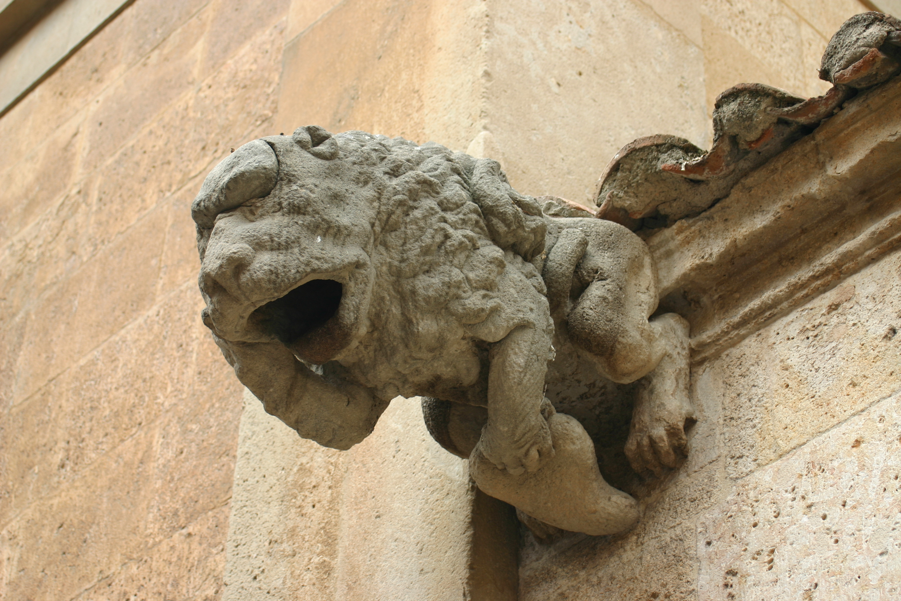 Gargoyle. Cathedral of Tarragona, Catalonia (Spain)